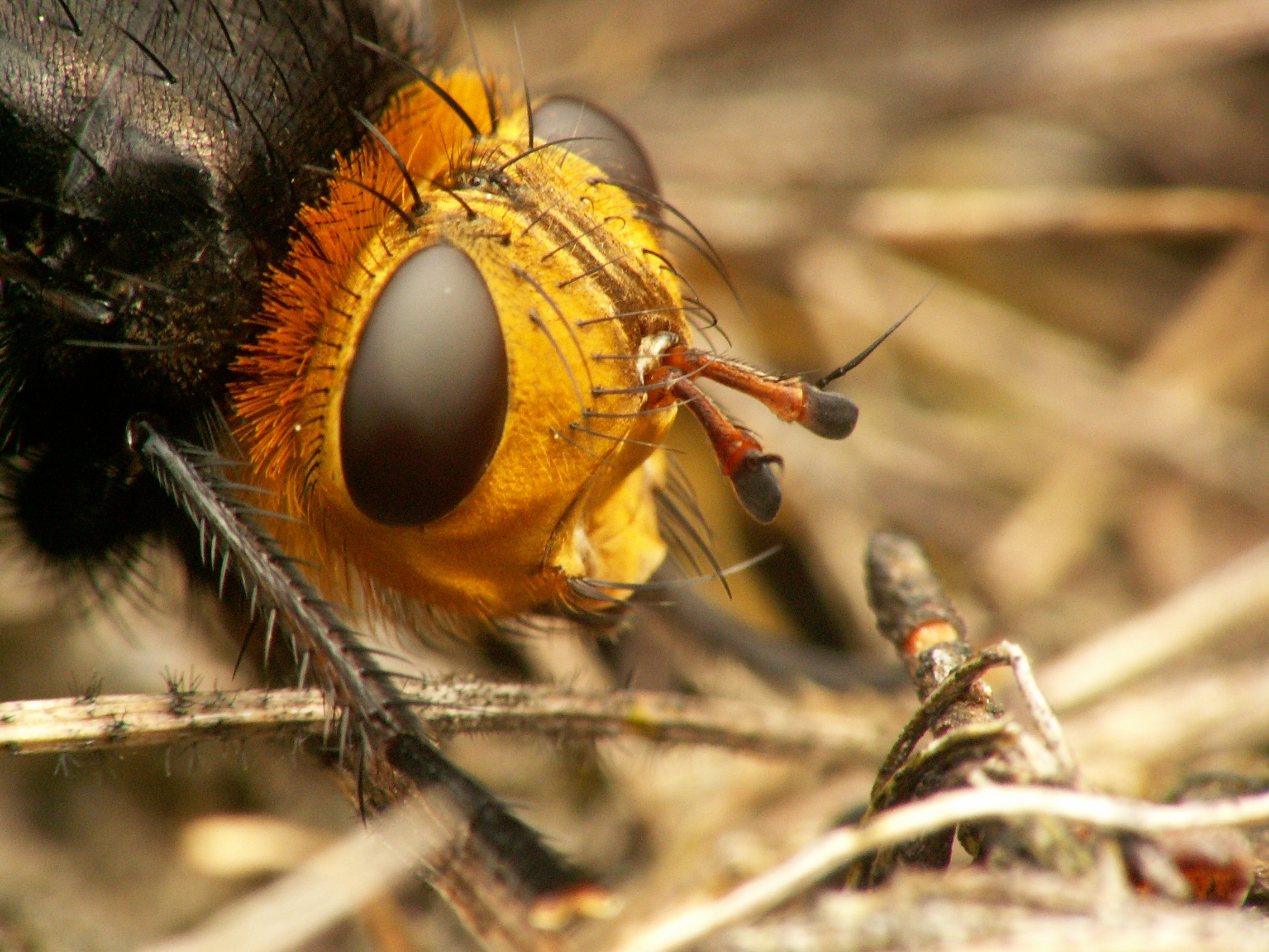 Tachina grossa head on heathland, Veluwe, The Netherlands